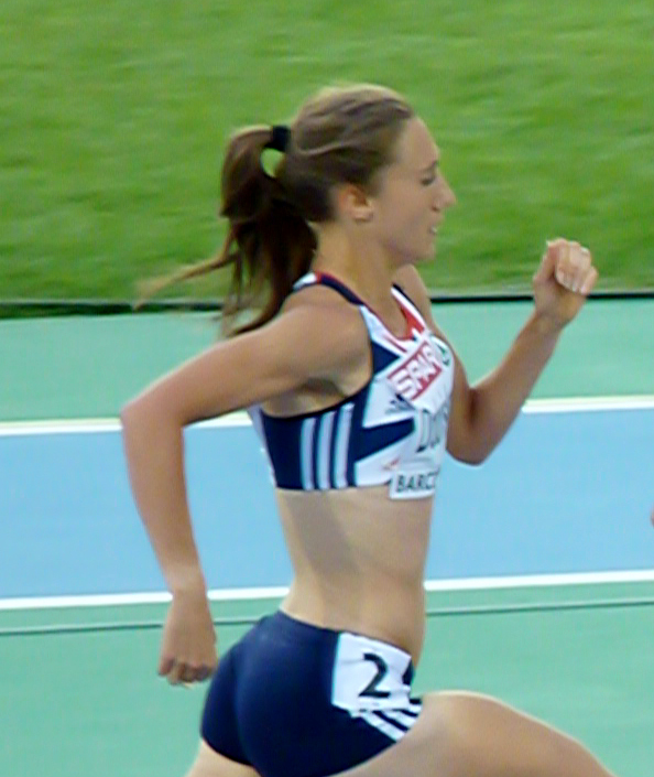 Lisa Dobriskey in the qualifying heat of the 1500 m, in the 2010 European Athletics Championships.